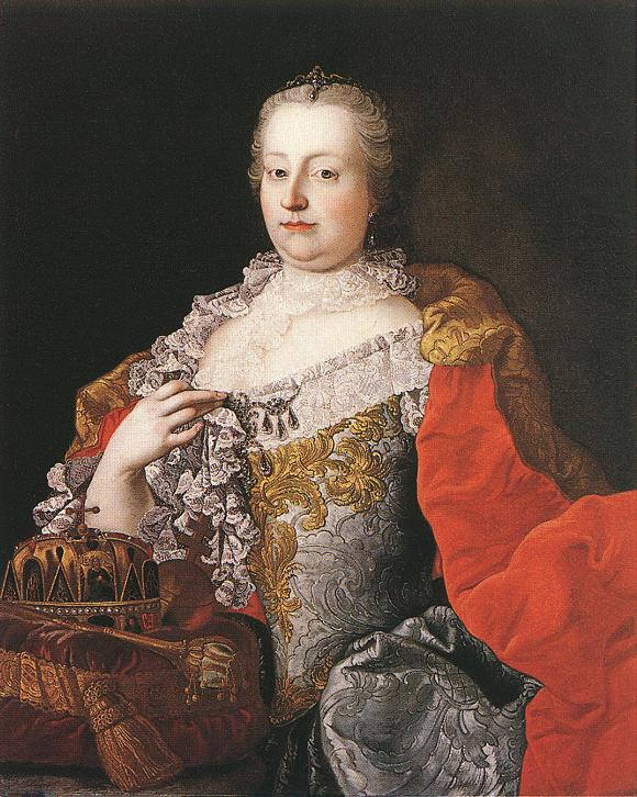 Queen Maria Theresia